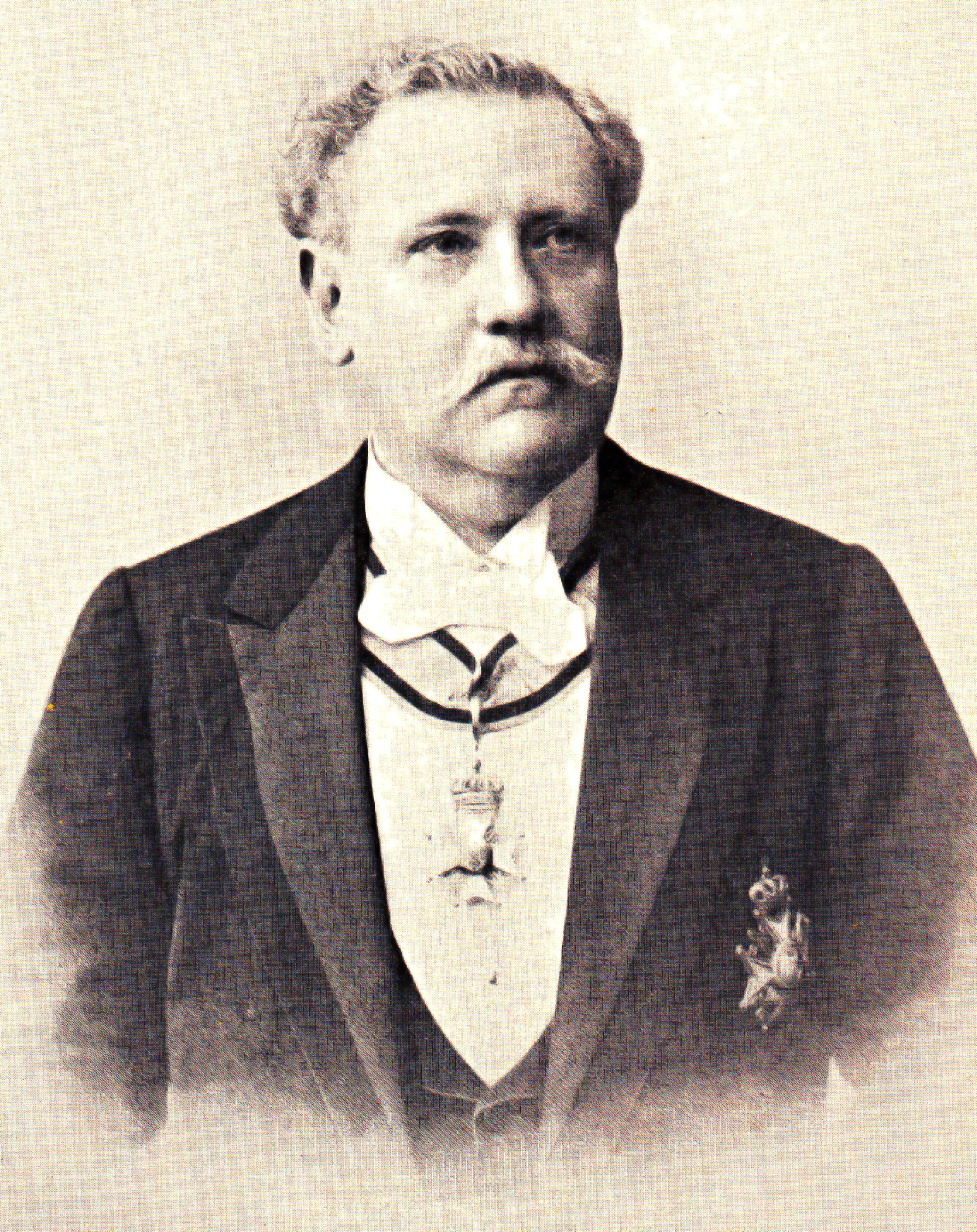 Van der Wijck